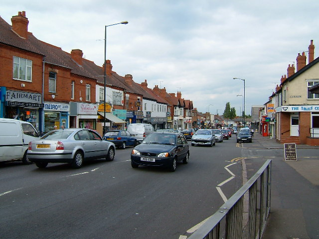 Ball Hill. Ball Hill is a busy local shopping centre on Walsgrave Road, on the East Side of Coventry. It is usually choked with traffic